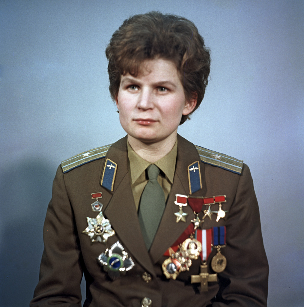 “Valentina Tereshkova”. Valentina Tereshkova, pilot-cosmonaut, first female cosmonaut, Hero of the USSR. Pictured as a Major of the Soviet Air Forces.